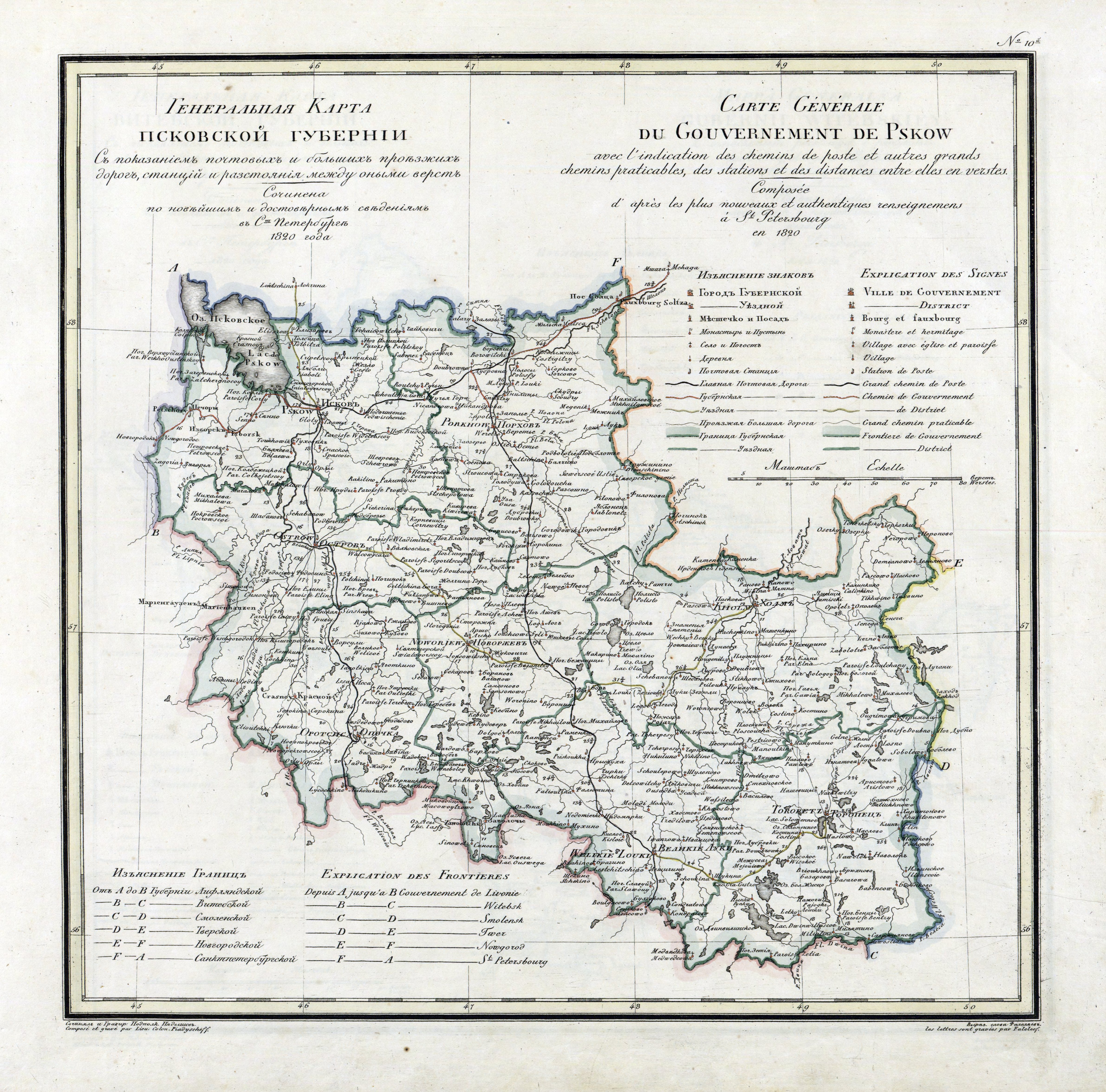 Pskovian governorate